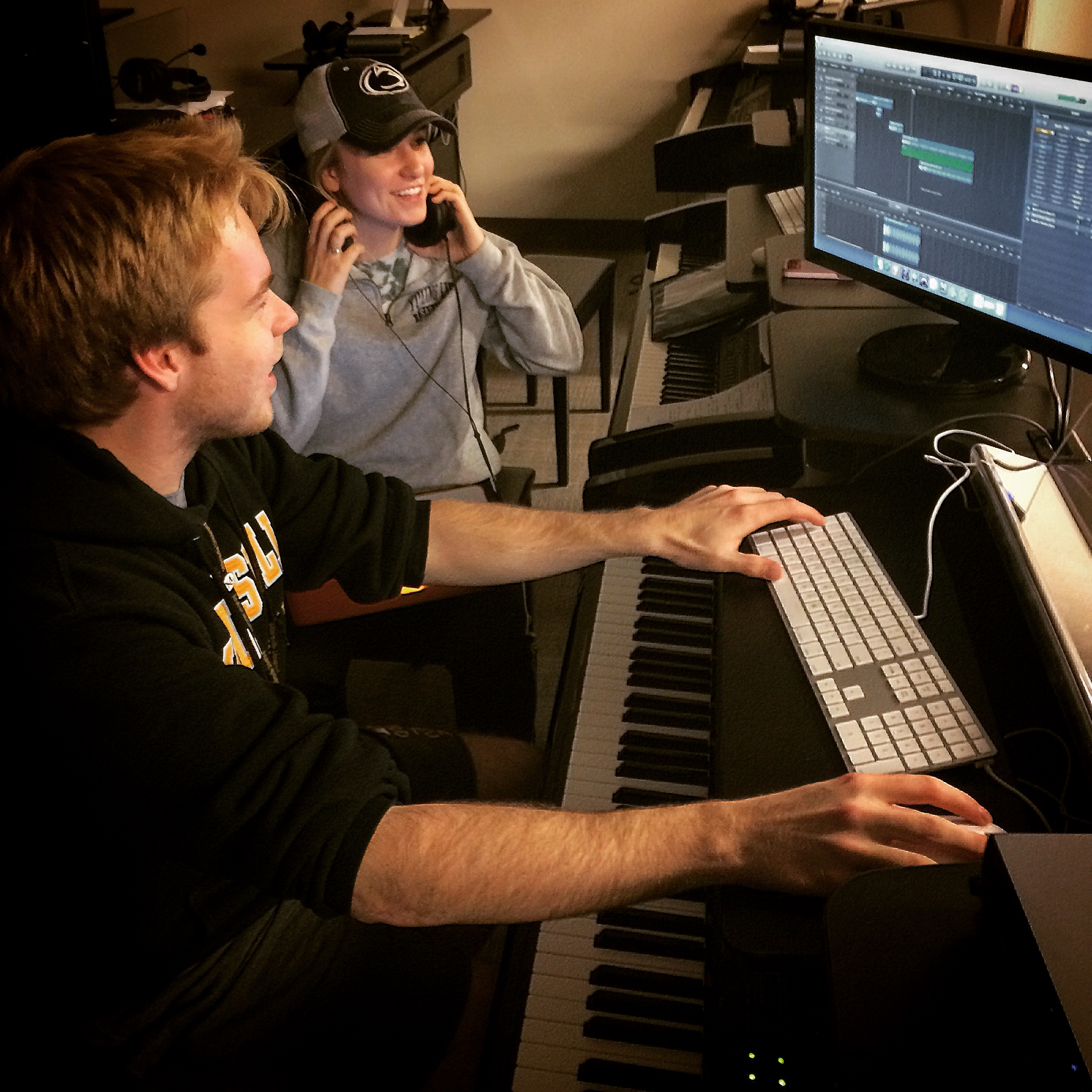 Students in the Music Department at Millersville University combining technology with their traditional music curriculum.